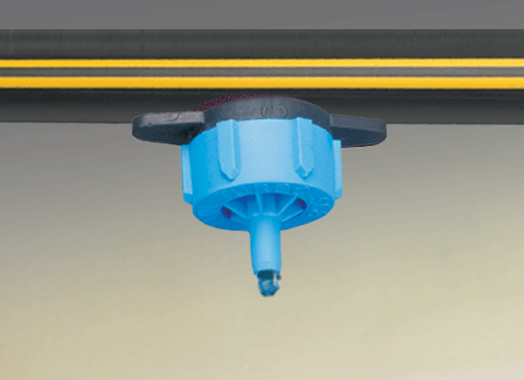 Photograph by Jisl. Dripper in action, connected to Polytube / Lateral, specially used in Drip / Micro Irrigation System for watering crop / plant.